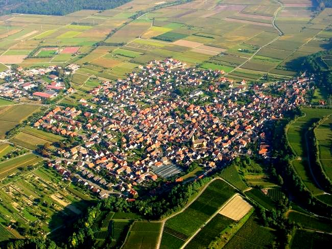 Aerial photograph of Merdingen, Germany, taken at a balloon travel by balloon team Norbert Blau